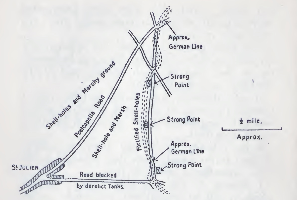 Diagram of tank attack on 28 August 1917 near St Julien, 3rd Battle of Ypres